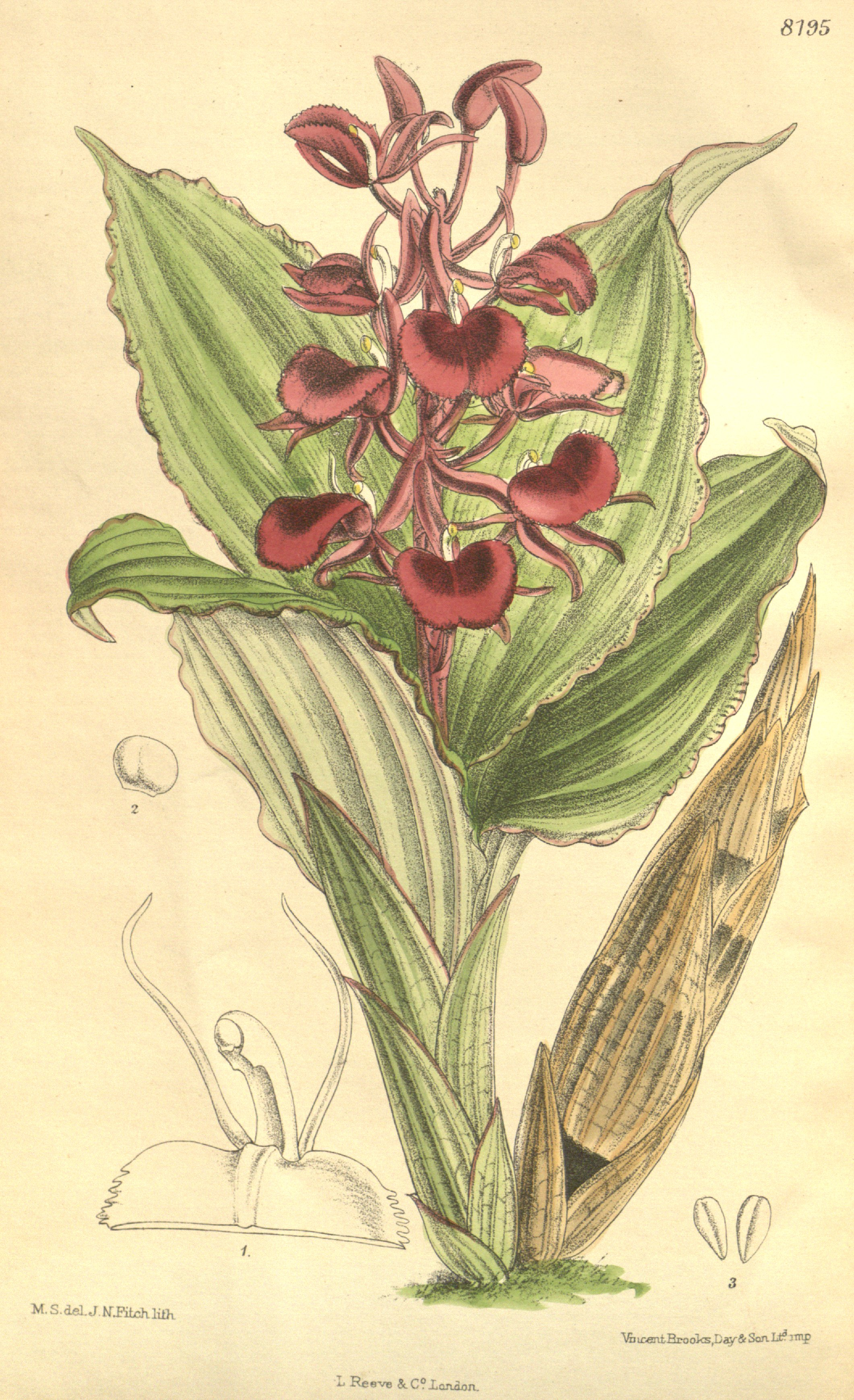 Illustration of Liparis atrosanguinea (as syn. Liparis tabularis)